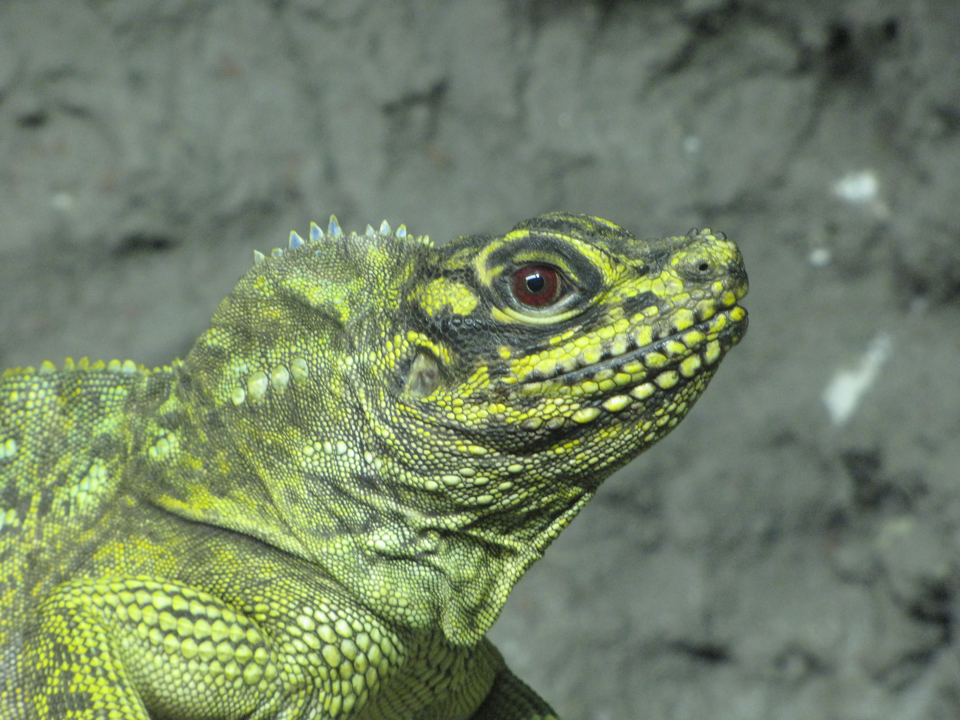 Sailfin lizard (Hydrosaurus pustulatus) in Helsinki Tropicario Zoo.